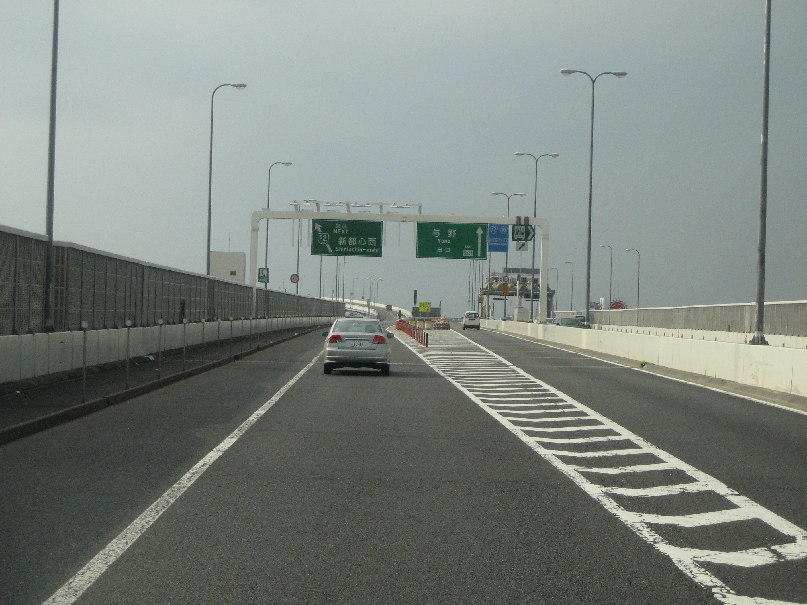 Yono Junction on the Metropolitan Expressway Route S5